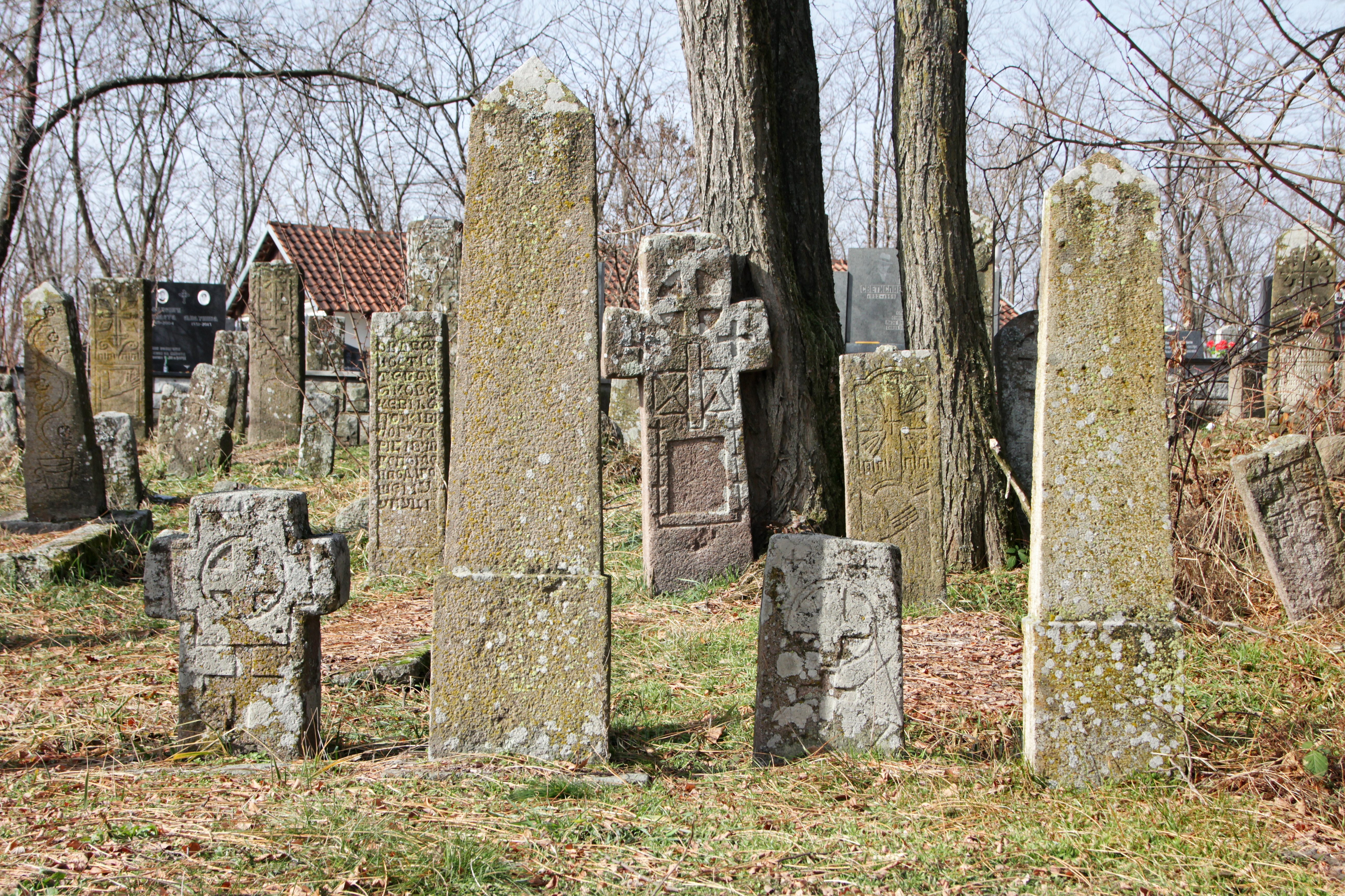 Old gravestones at the cementery in the village of Nevade (the municipality of Gornji Milanovac), Serbia.